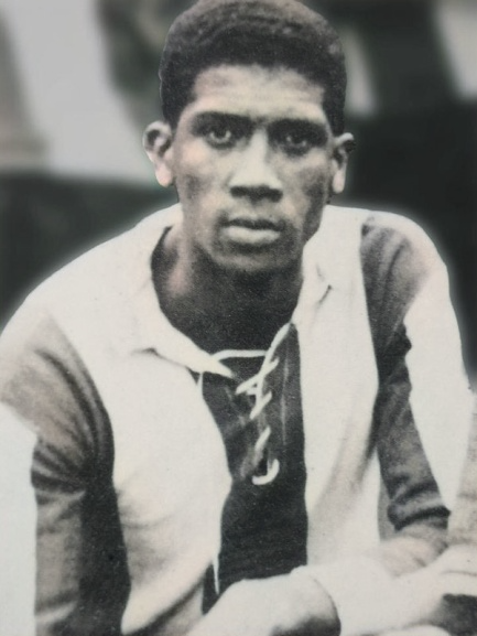 Peruvian footballer Alejandro Villanueva posing for an image with his Alianza Lima uniform.